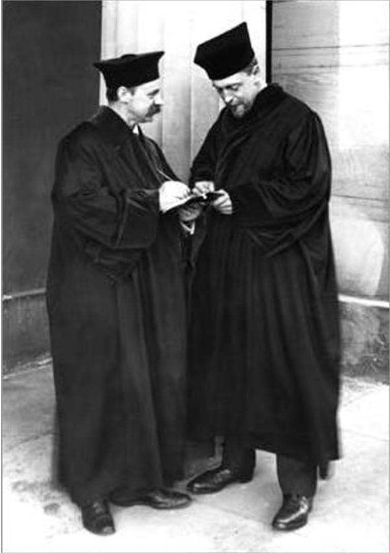 Karl Schwarzschild (left) and Ejnar Hertzsprung in professorial gowns in front of the Göttingen Observatory building sometime in 1909.